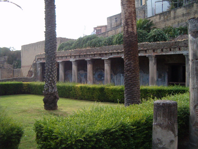 Herculaneum-Argosz's house